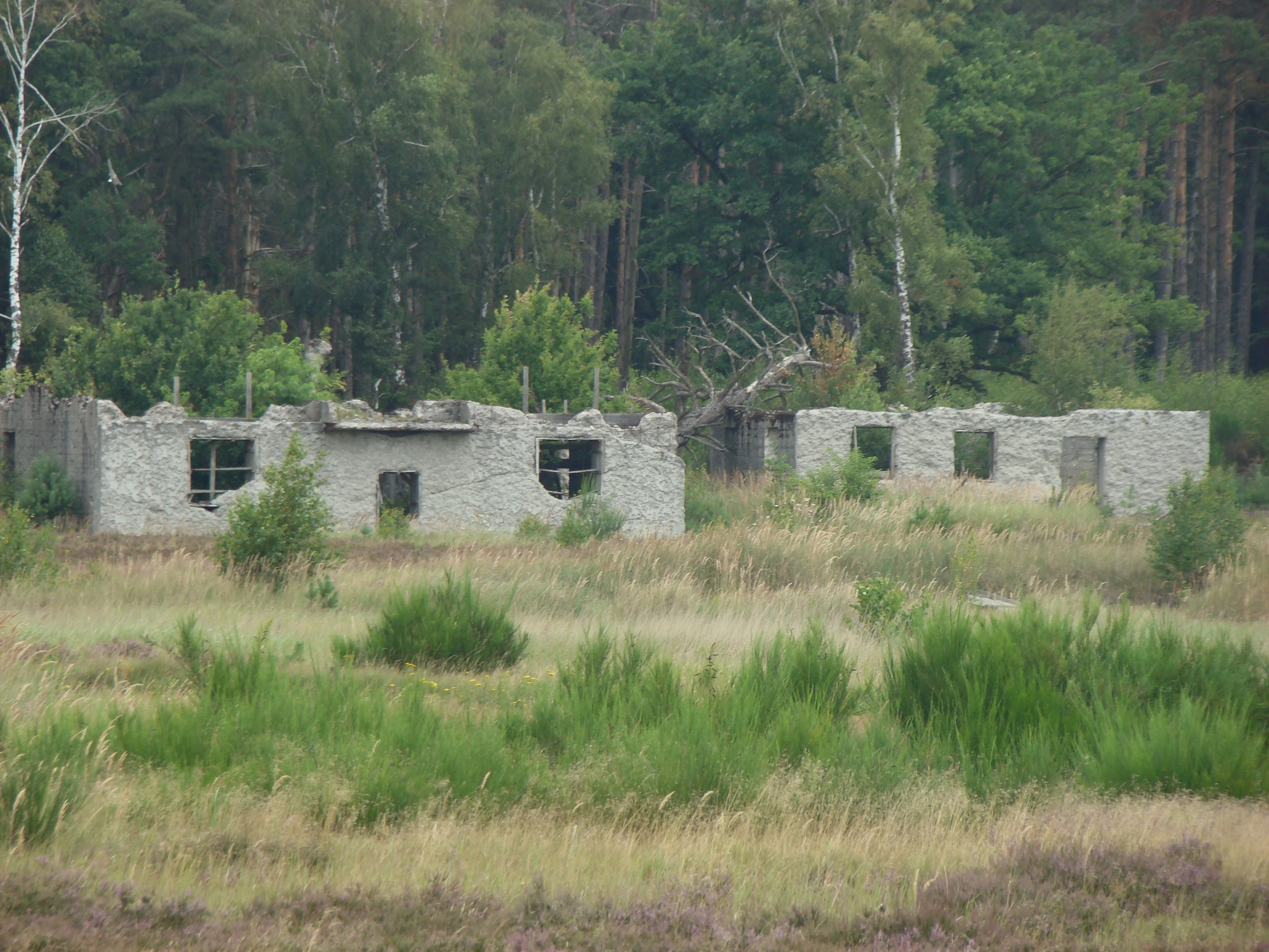 FIBUA village at Bergen-Hohne Training Area